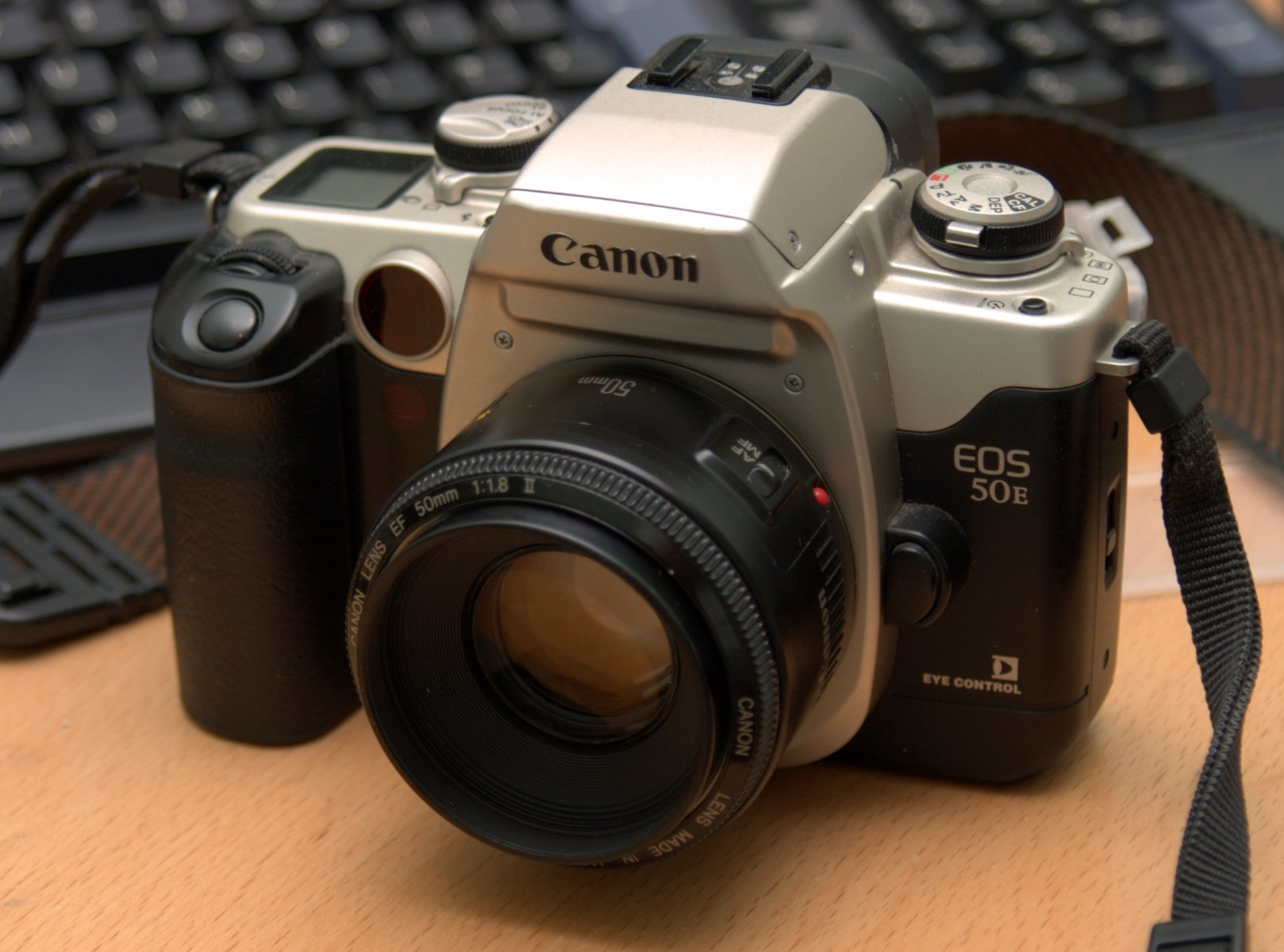 A Canon EOS 50e autofocus SLR camera